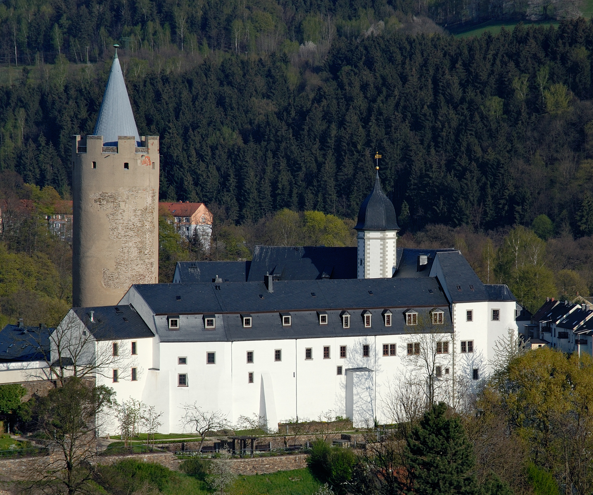 This image shows the castle Wildeck in Zschopau, Germany seen from north west.